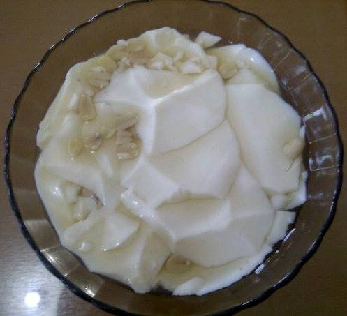 Tahwa, Indonesian version of douhua, with ginger syrup and peanut